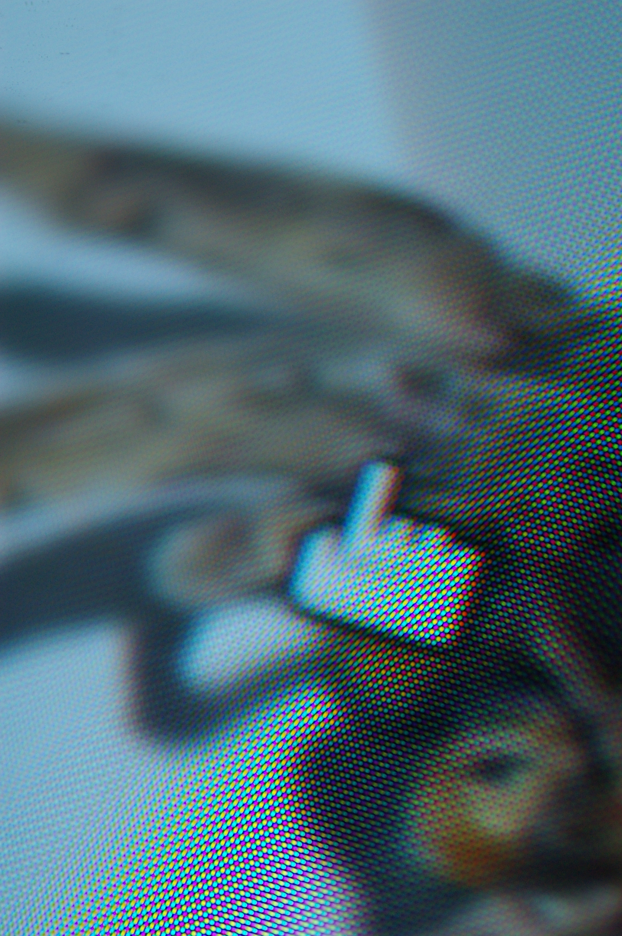 Closeup photograph of mouse cursor hovering over thumbnail of Image:Wolf spider focus bracket02.jpg on the Macro photography page.